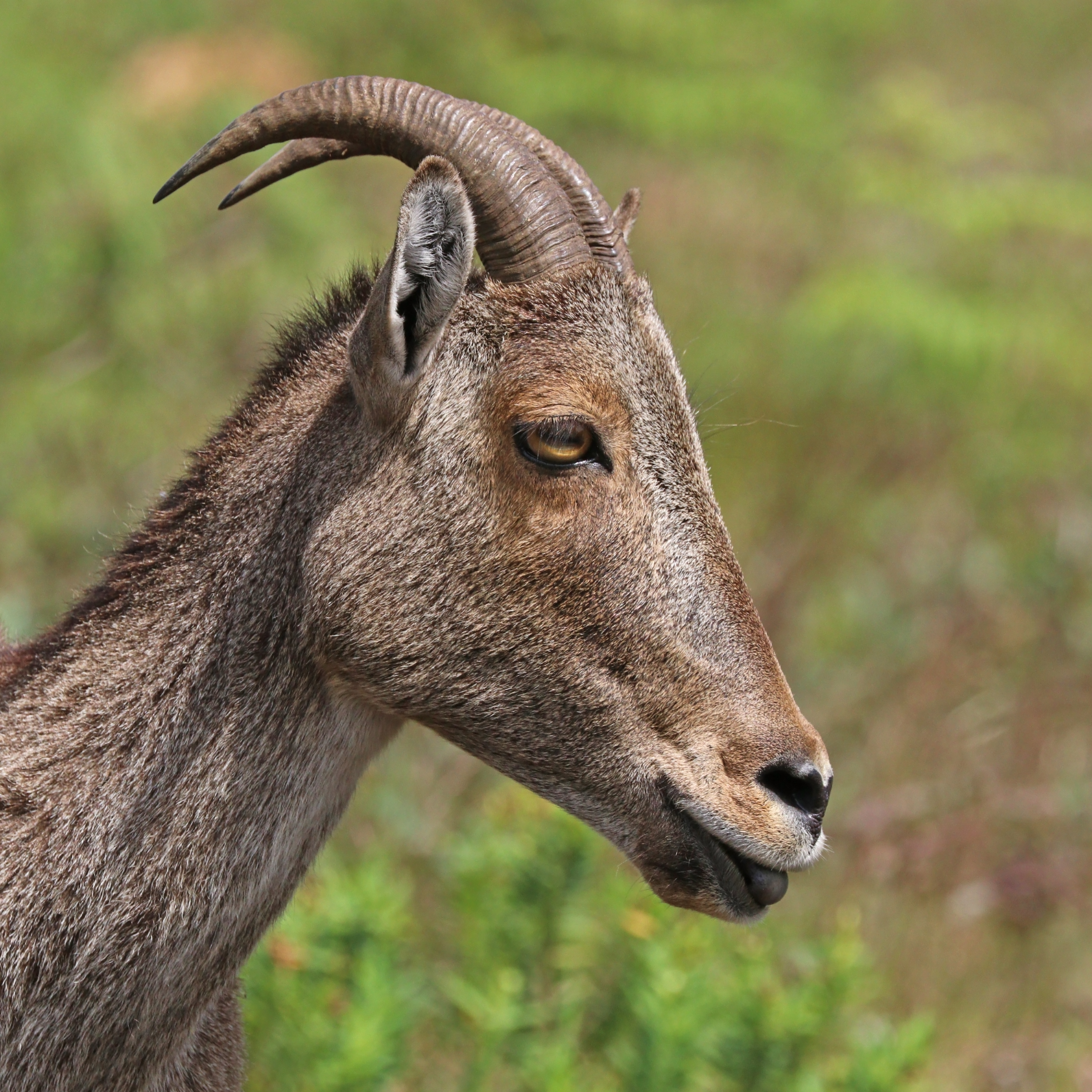 Nilgiri tahr (Nilgiritragus hylocrius) female, Eravikulam National Park, Kerala, India